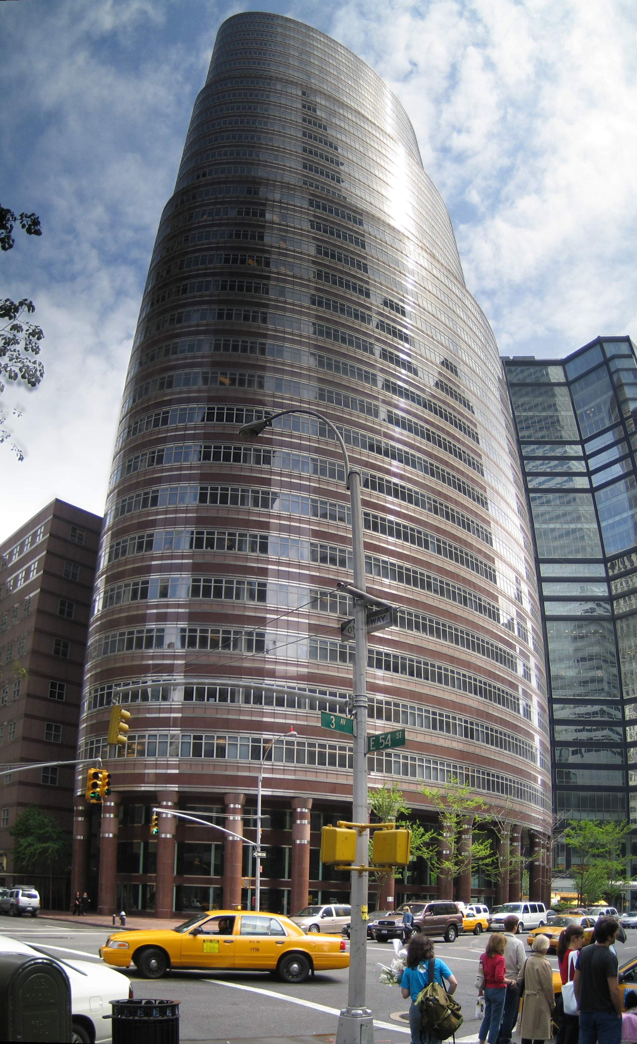 Lipstick Building, Manhattan